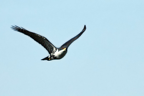 Uganda Black Goshawk (Accipiter melanoleucus)